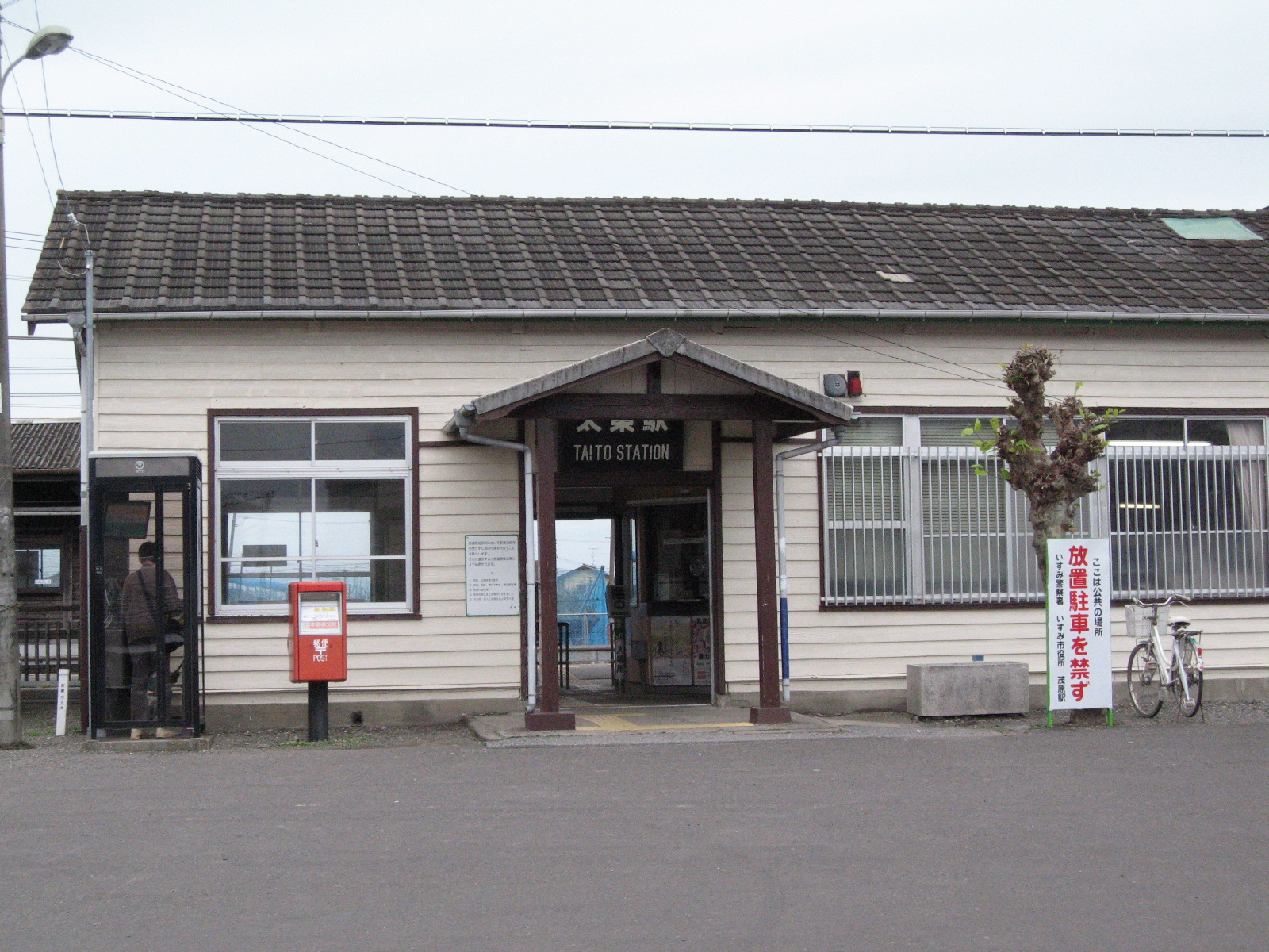 Taito Station on Sotobo Line, in Chiba Prefecture, Japan